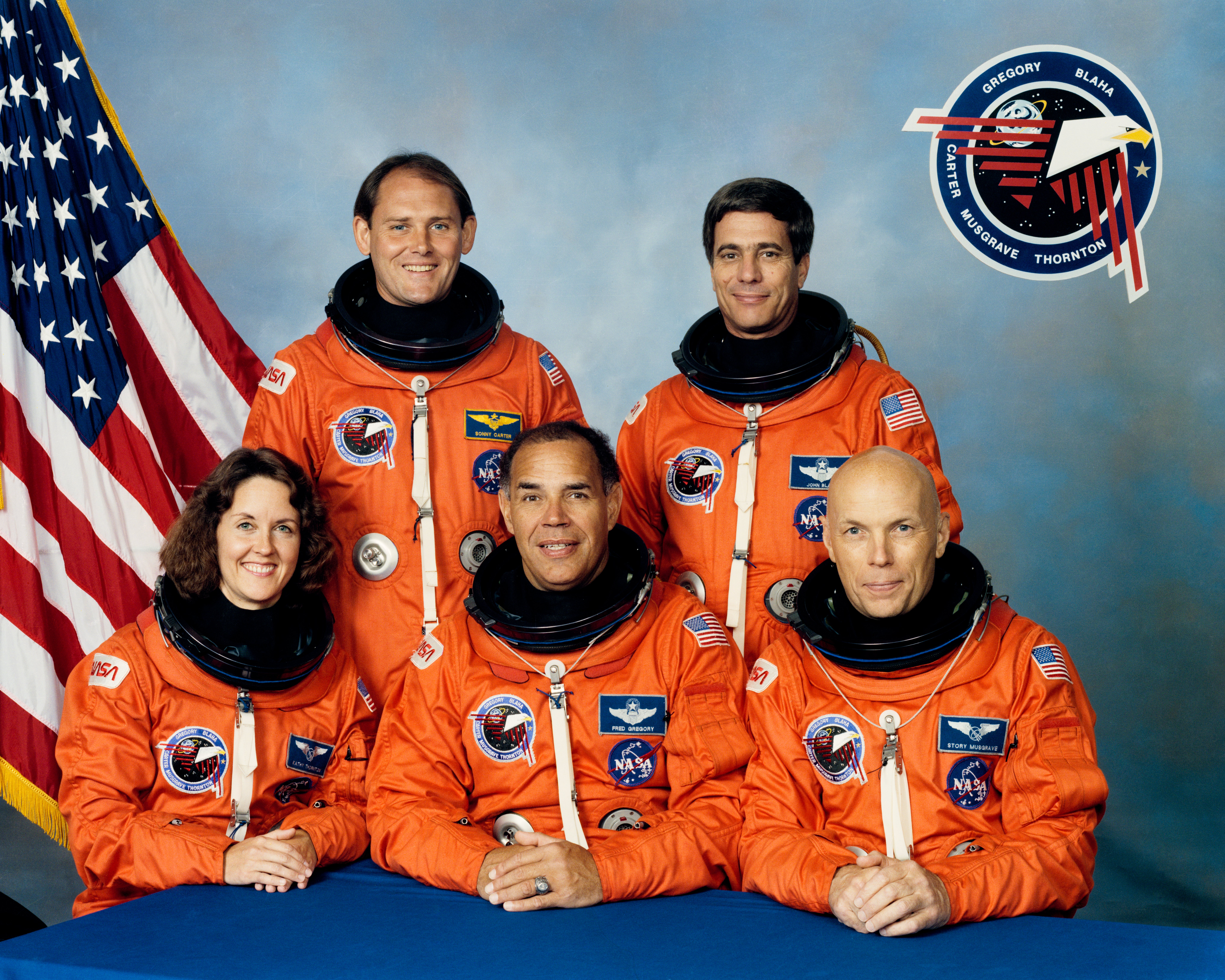 On November 22, 1989, at 7:23:30pm (EST), 5 astronauts were launched into space aboard the Space Shuttle Orbiter Discovery for the 5th Department of Defense mission, STS-33. Photographed from left to right are Kathryn C. Thornton, mission specialist 3; Manley L. (Sonny) Carter, mission specialist 2; Frederick D. Gregory, commander; John E. Blaha, pilot; and F. Story Musgrave, mission specialist 1.